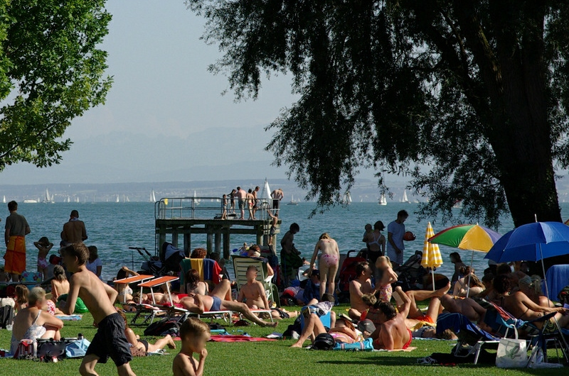 The lido at Überlingen-Nußdorf, Lake Constance